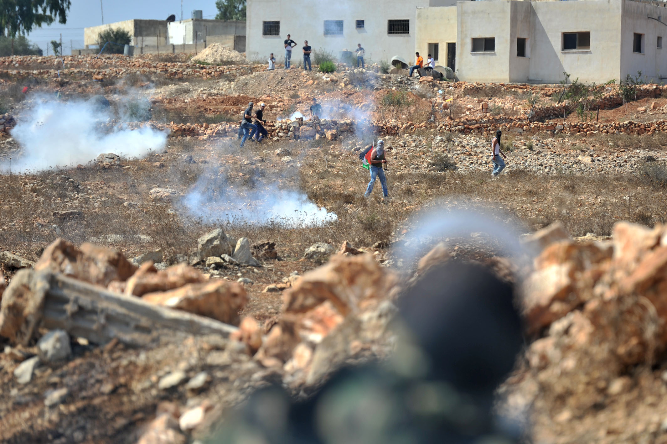 Violent rioters throwing rocks at security forces near Nabi Saleh. The protests in Nabi Saleh often turn violent and security forces have to use riot dispersal mean.